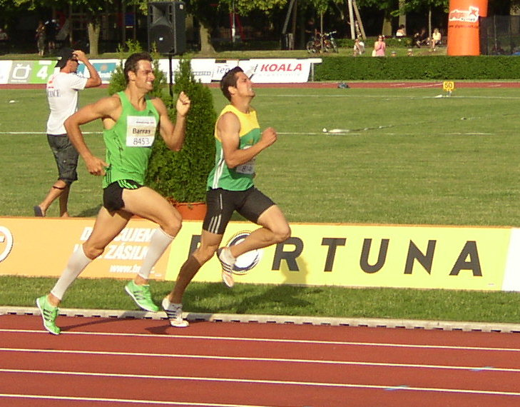 Athletes Romain Barras of France and Willem Coertzen of South Africa struggling in finish of second 1500 m run, closing event of men's decathlon at 5th edition of the TNT - Fortuna Meeting (IAAF World Combined Events Challenge Meeting, Sletiště Stadium, Kladno, Czech Republic, 16 June 2011, 18:27). Performance of both competitors (Barras 4th in 4:25.97 min. and Coertzen 5th in 4:26.07) earned them 771 points, which boosted Coertzen to overall bronze position, just 5 points ahead Dimitry Karpov of Kazakhstan.